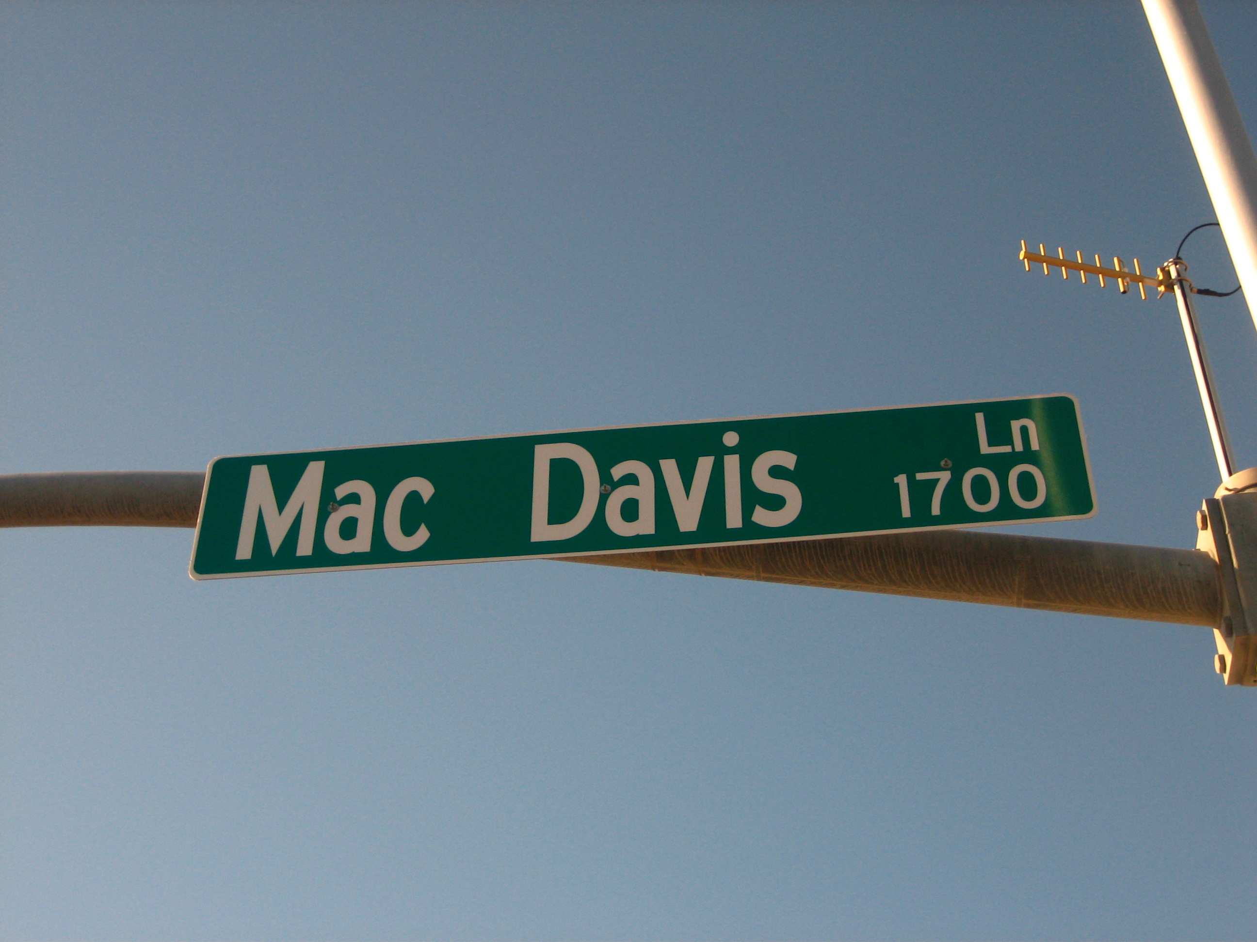 I took photo on April 5, 2009.Billy Hathorn (talk) 02:21, 7 April 2009 (UTC)